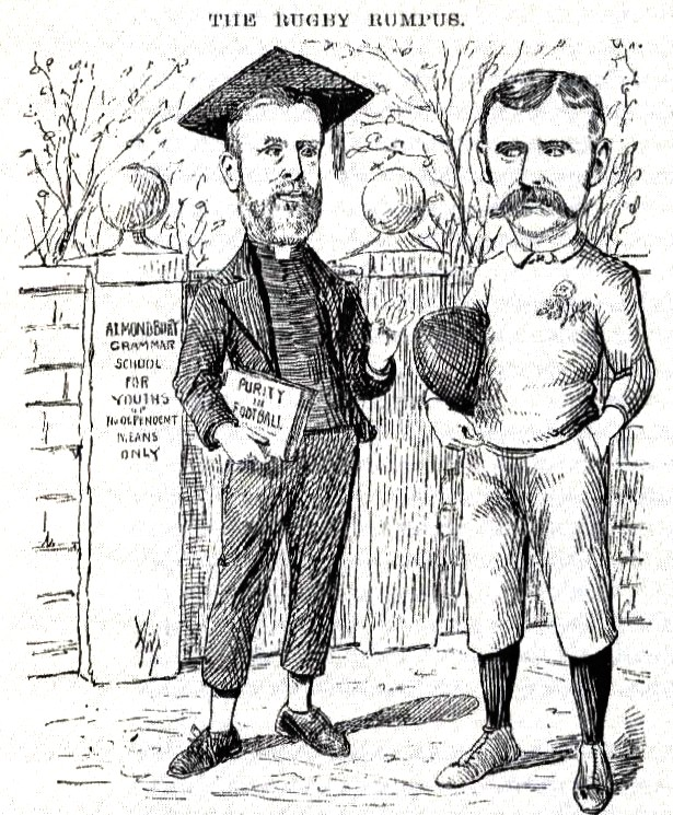 Cartoon relating to the schism between rugby league and rugby union (see also: History of rugby league and History of rugby union). The caricatures are of Rev. Frank Marshall, an arch-opponent of broken-time payments, and James Miller, a long-time opponent of Marshall. The caption underneath reads: Marshall: "Oh, fie, go away naughty boy, I don’t play with boys who can’t afford to take a holiday for football any day they like!" Miller: "Yes, that’s just you to a T; you’d make it so that no lad whose father wasn’t a millionaire could play at all in a really good team. For my part I see no reason why the men who make the money shouldn’t have a share in the spending of it."